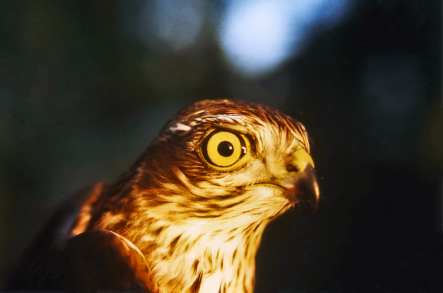 description: Portrait of a juvenile, male Sparrowhawk source: own photo photographer/illustrator: S. Seyfert (Stse 09:58, 7 March 2006 (UTC)) date: 2000-10 note